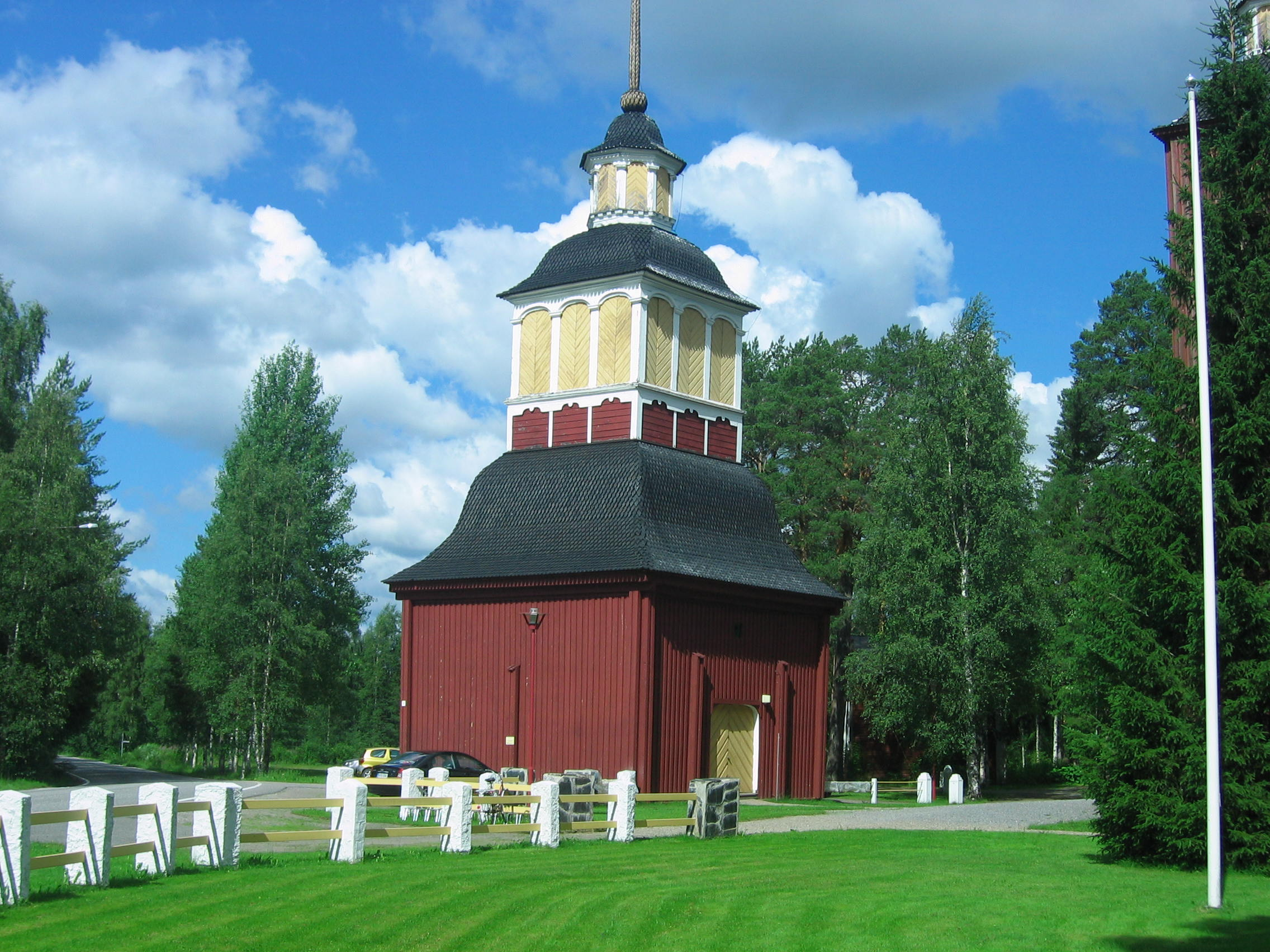 The belfry of the church of Utajärvi, Finland